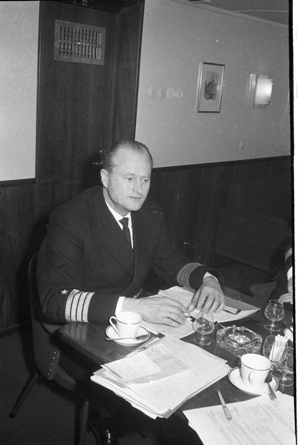 Herwig Collmann, Commanding officer of training ship DEUTSCHLAND (A 59)